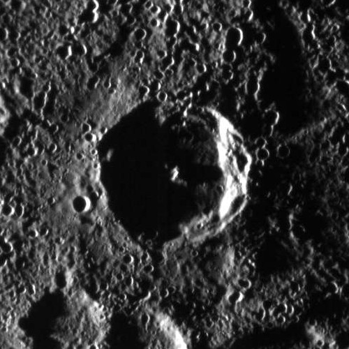 Petőfi crater on Mercury. Cropped from MESSENGER Narrow Angle Camera image. Emission Angle: 4.4 Incidence Angle: 87.5 Latitude: -83.7 Longitude: 112.2 Phase Angle: 83.4